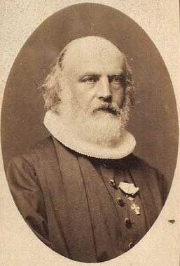 Carl Joakim Brandt (1817-1889), Danish priest, educator, and literary historian